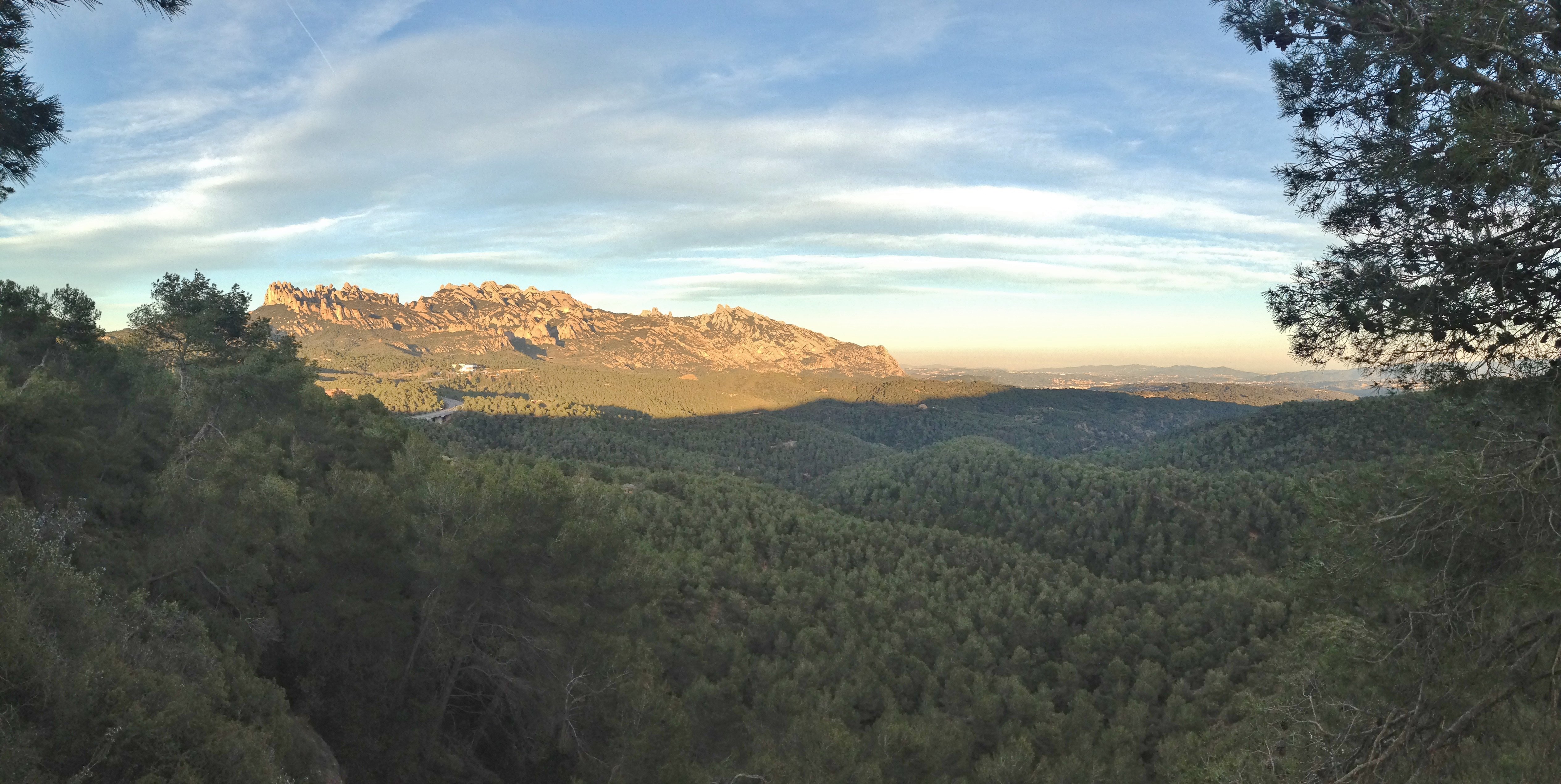 View of Natura2000 site "Roques Blanques" and Montserrat mountain This is a a photo of a natural area in Catalonia, Spain, with id: ES510166